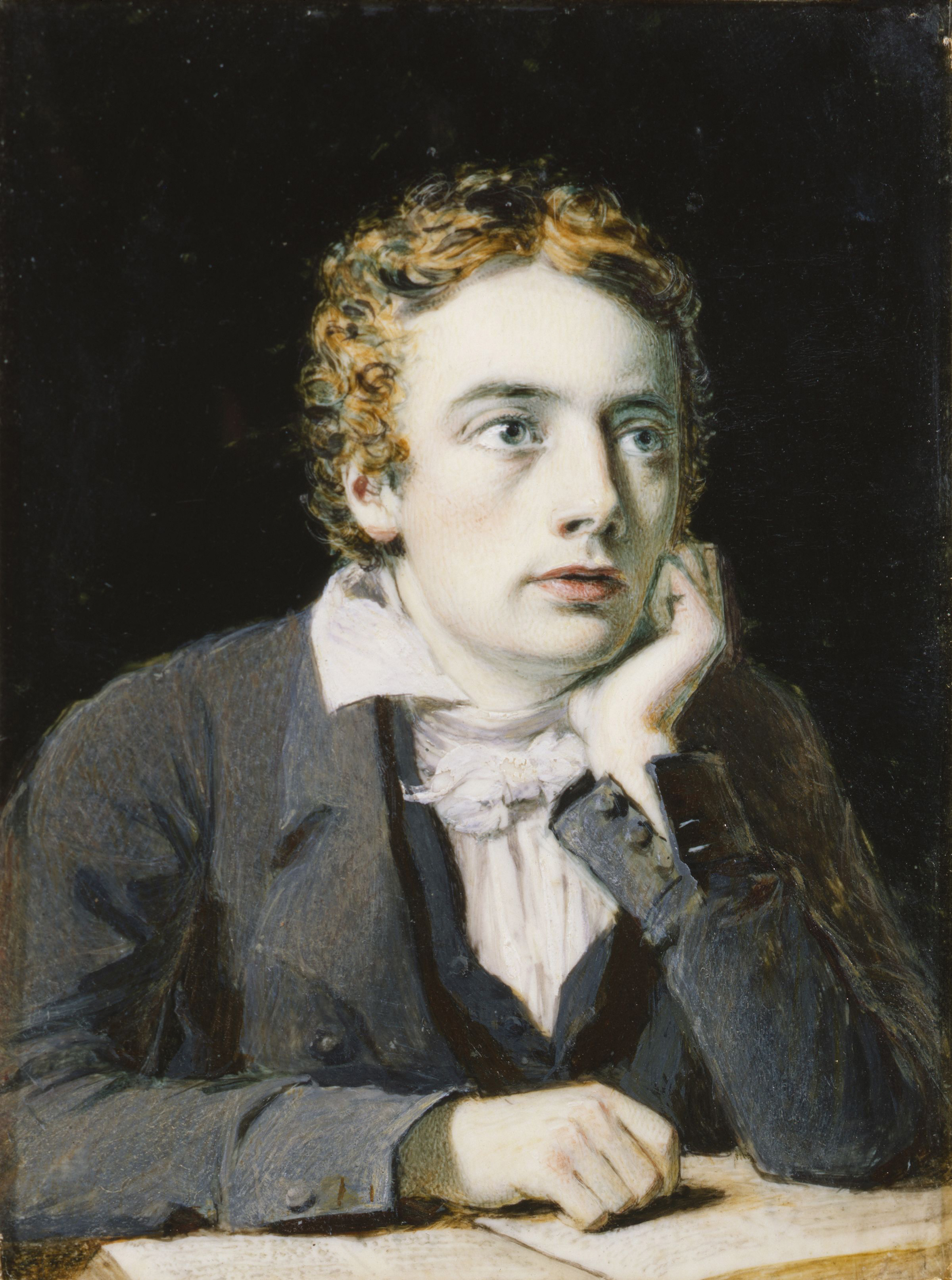 John Keats by Joseph Severn 1819. Oil on ivory miniature, 105×79 mm